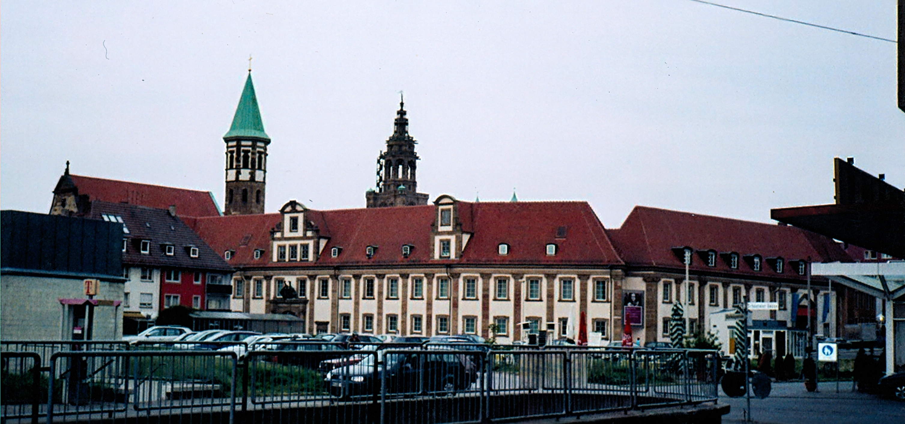 t